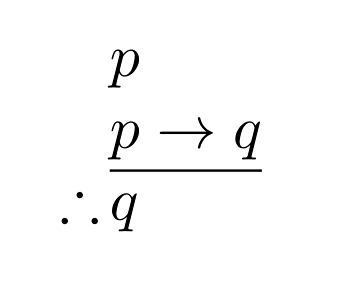 Schema for modus ponens done in LaTeX